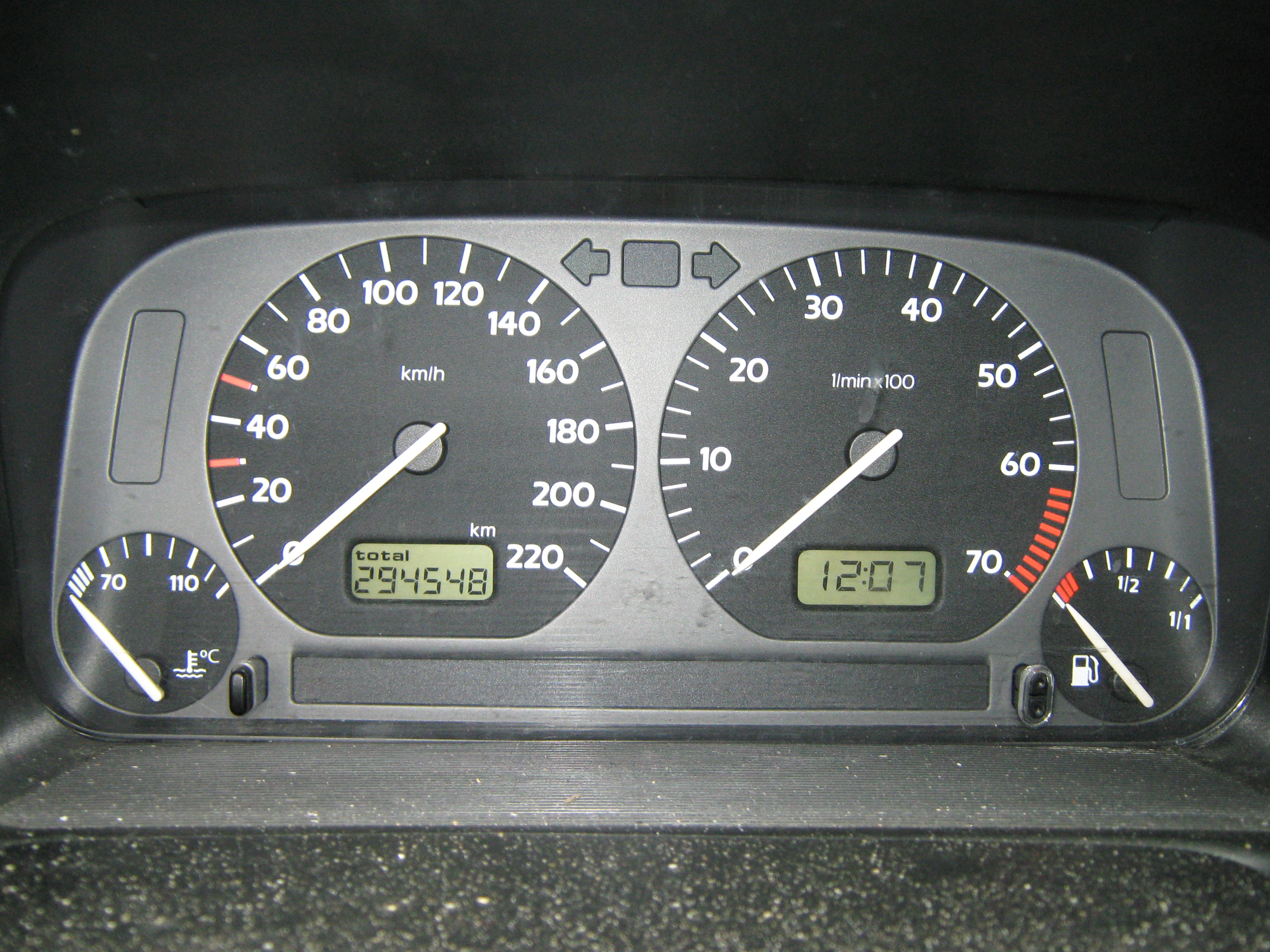 Instrument cluster of a 1996 Volkswagen Vento